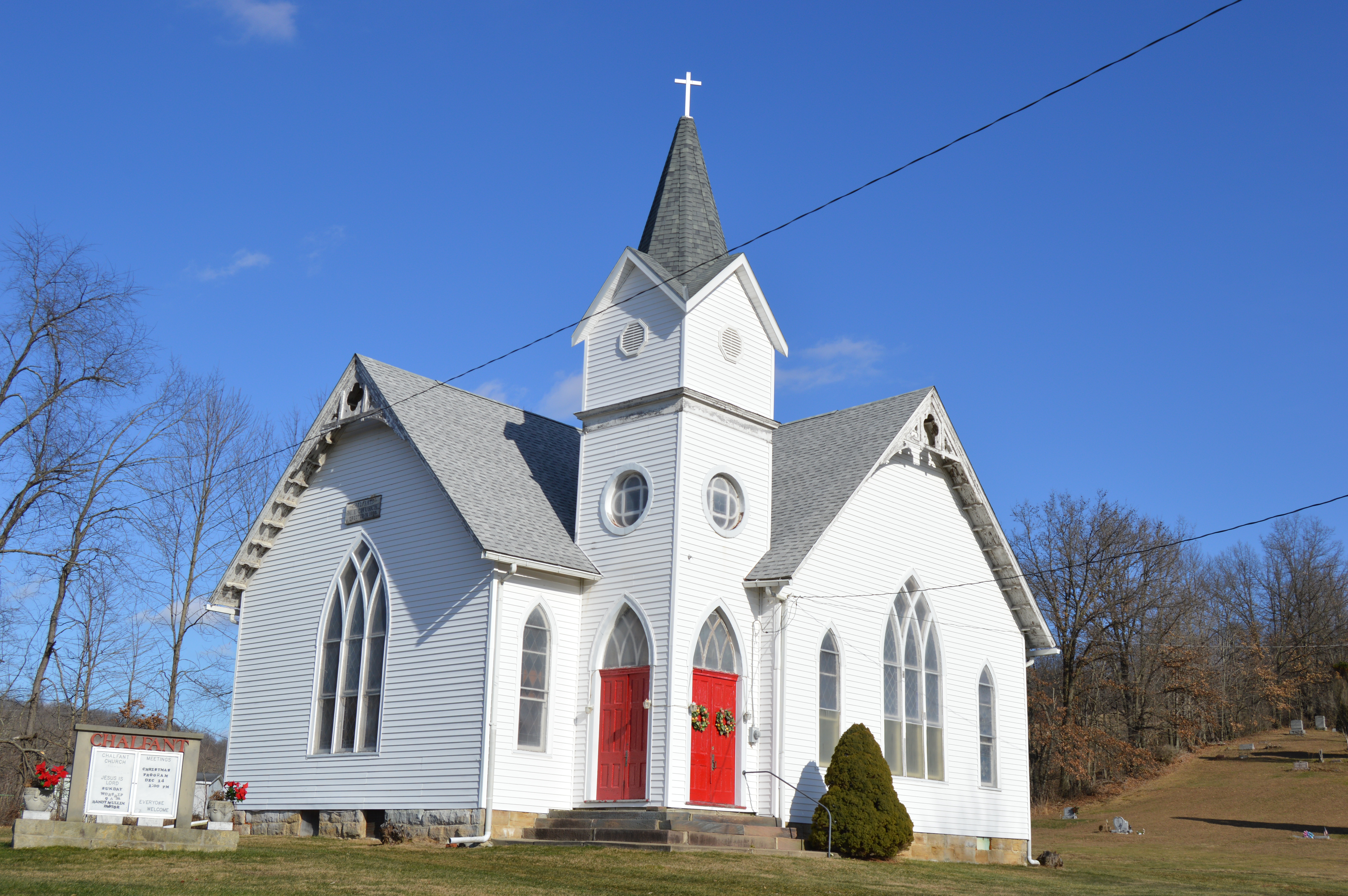 Western side and front of Chalfant Church, located at the junction of Roads 439 and 64B south of Coshocton in Washington Township, Coshocton County, Ohio, United States. Built in 1893, it is listed on the National Register of Historic Places.